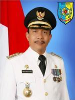 OK Arya Zulkarnaen as Regent of Baru Bara (Second Period)